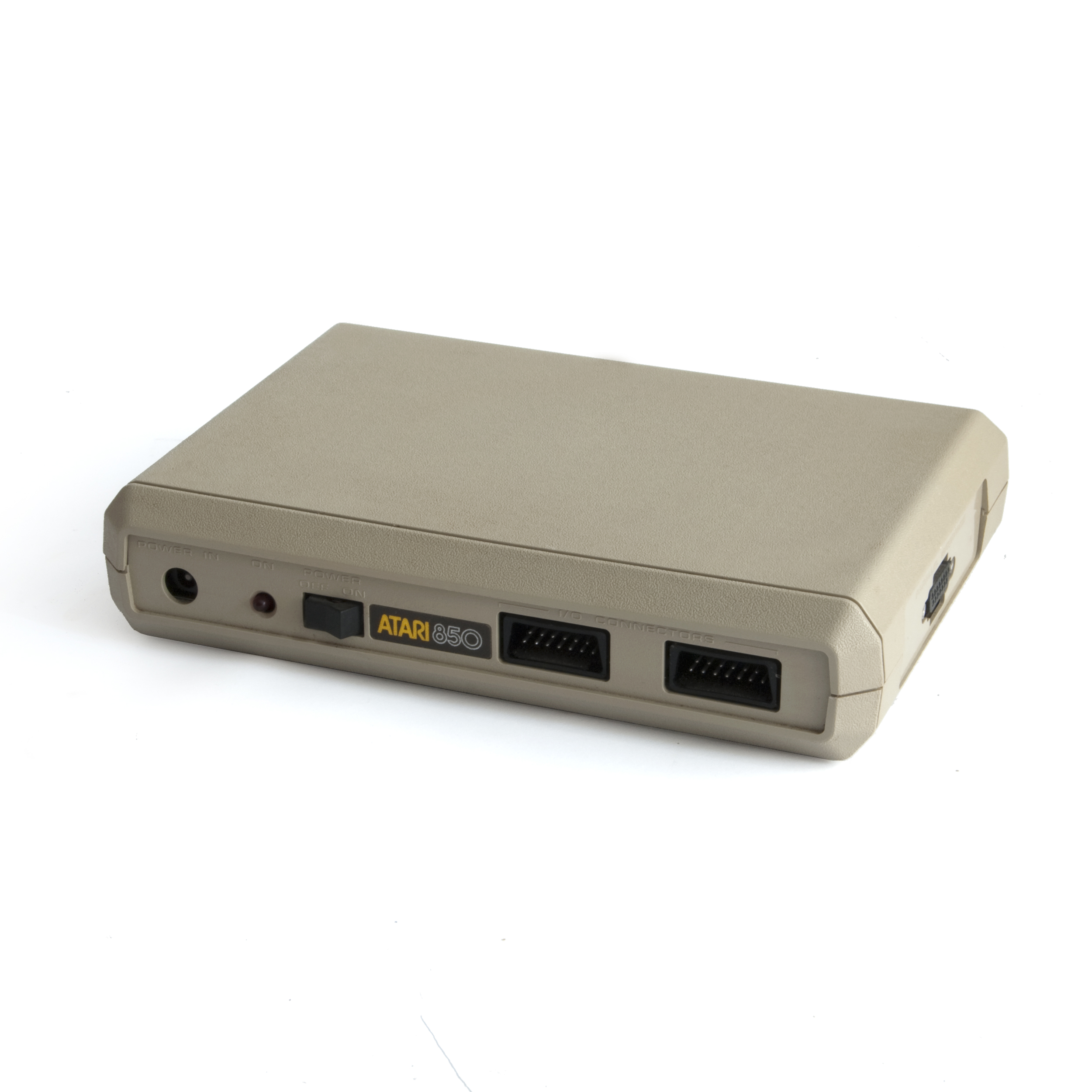 Atari 850 expansion system for the Atari 400 and 800 8-bit computers.